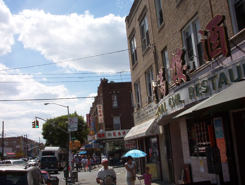 8th Avenue, Brooklyn, New York, August 2005.